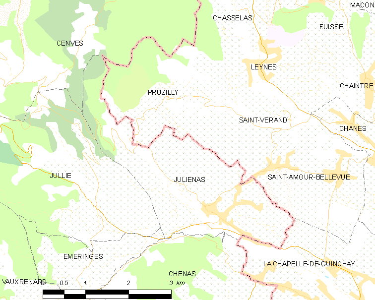 Map of French municipality